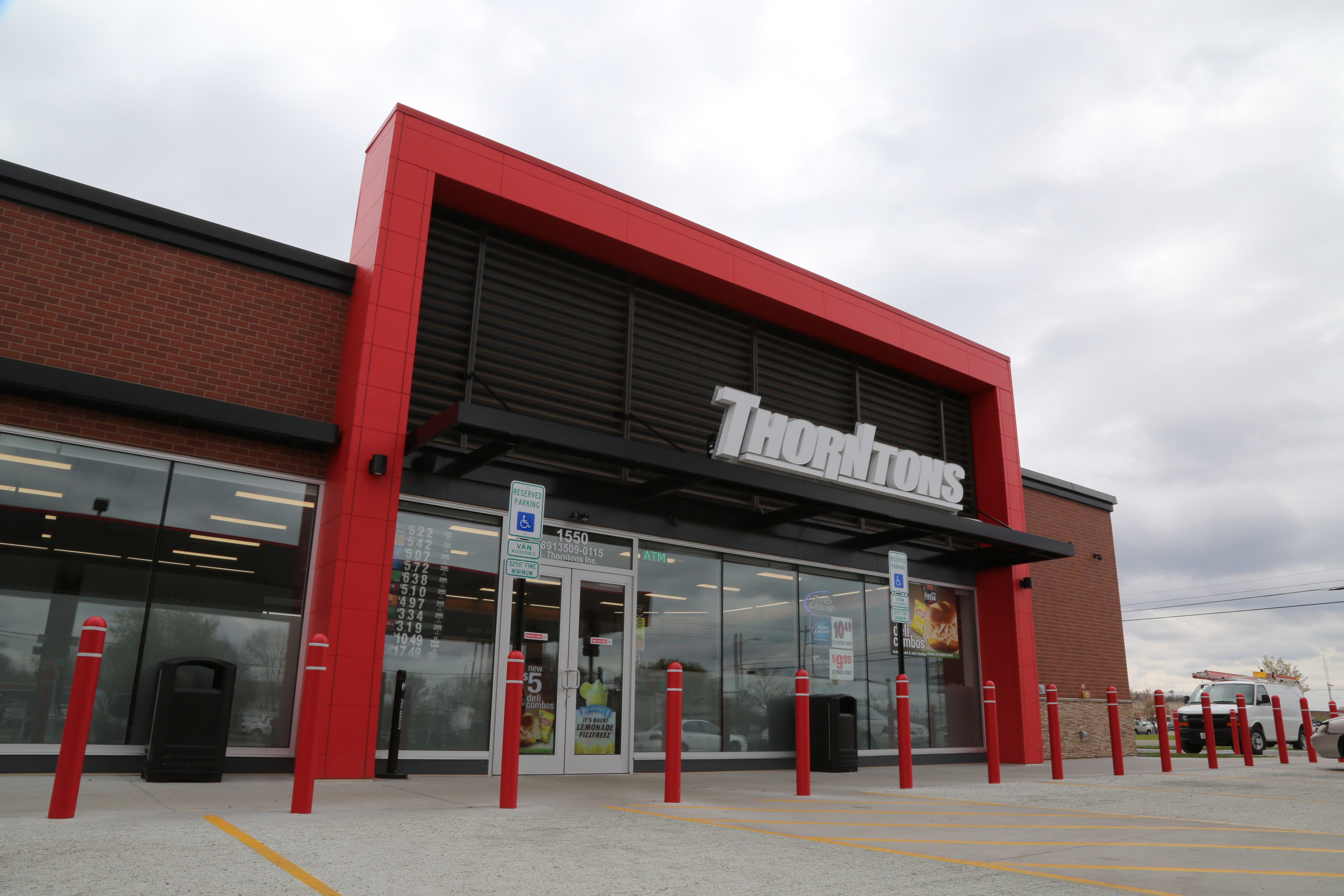 Updated Thorntons look